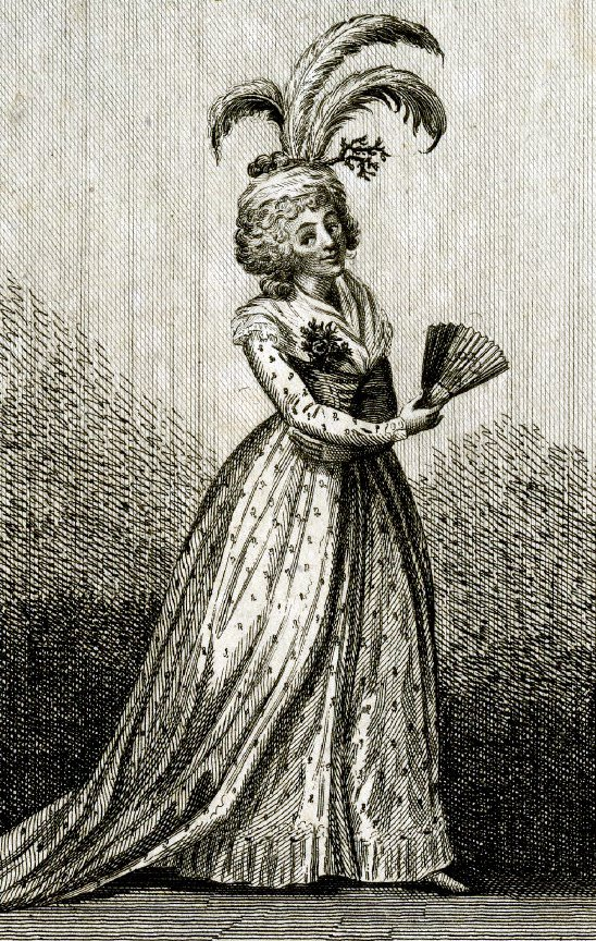 Isabella Mattocks in the Road to Ruin 1868